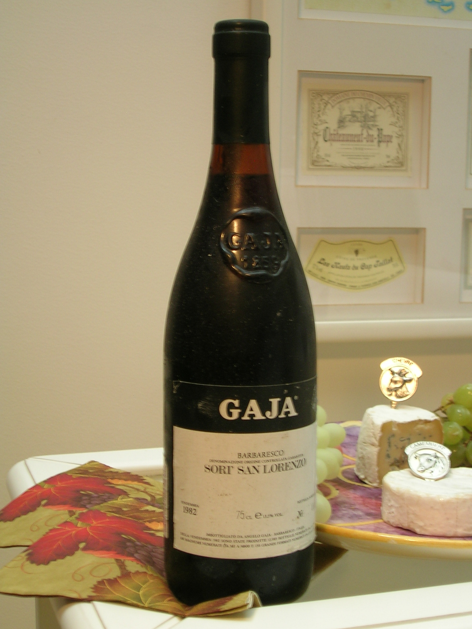 Barbaresco Wine - Angelo's Gaja - Sori San Lorenzo - 1982 - Piemonte